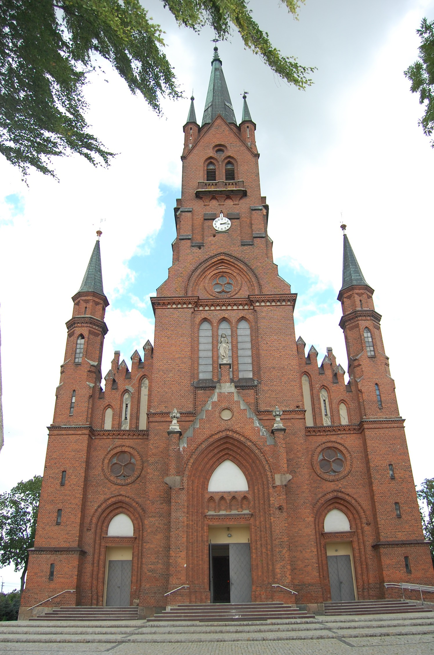 Neogothic church in Latowicz